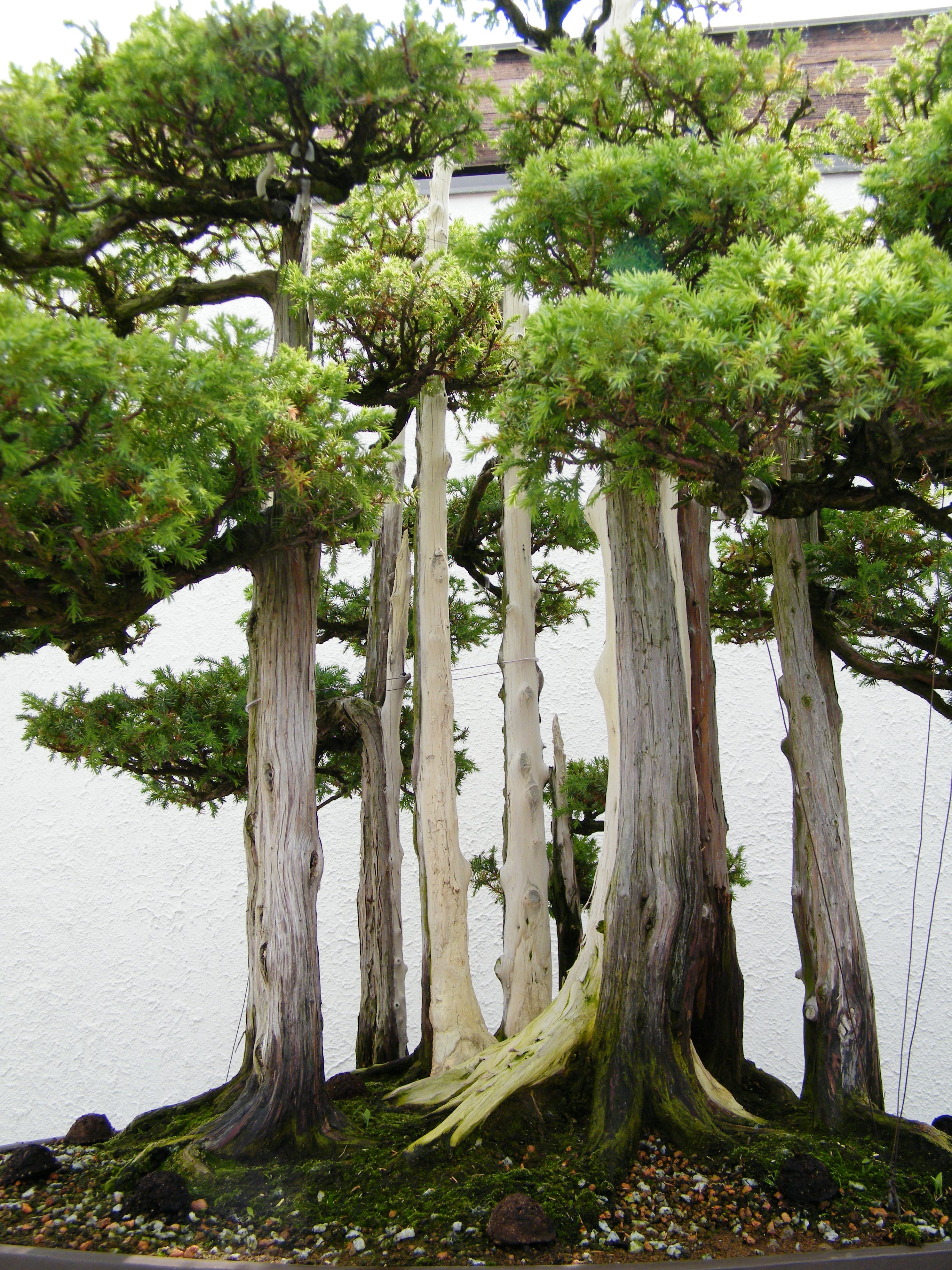 John Naka's Goshin at the U.S. National Arboretum's National Bonsai & Penjing Museum